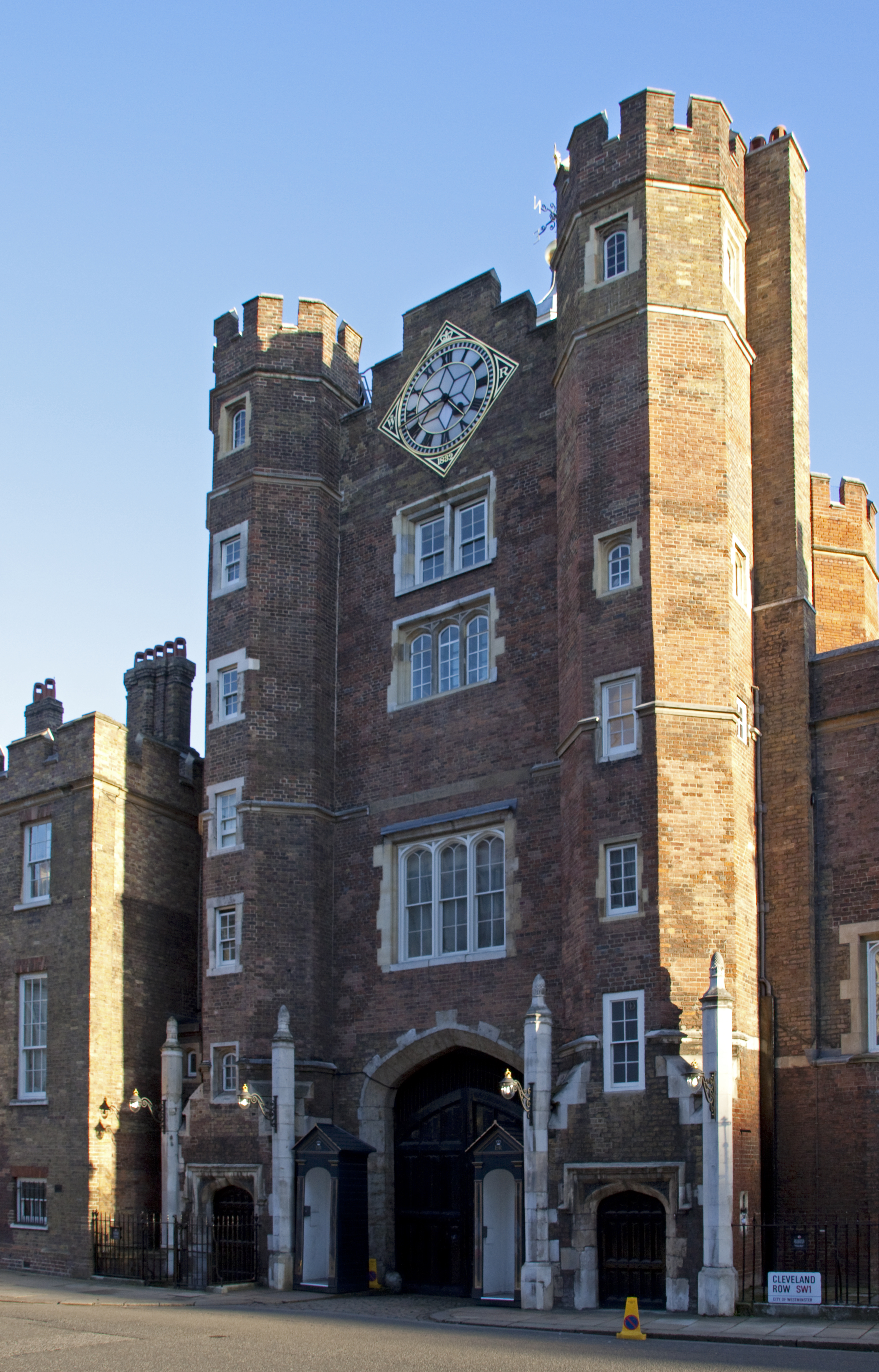 St James's palace, built around 1533-35 for Henry VIII on the site of the hospital of St. James